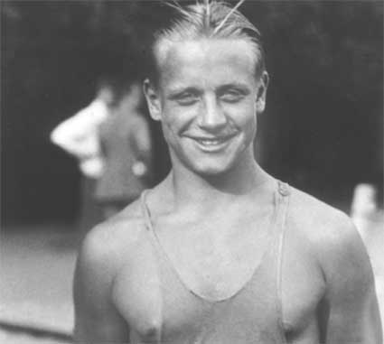 Björn Borg during the 1938 European Swimming Championships.